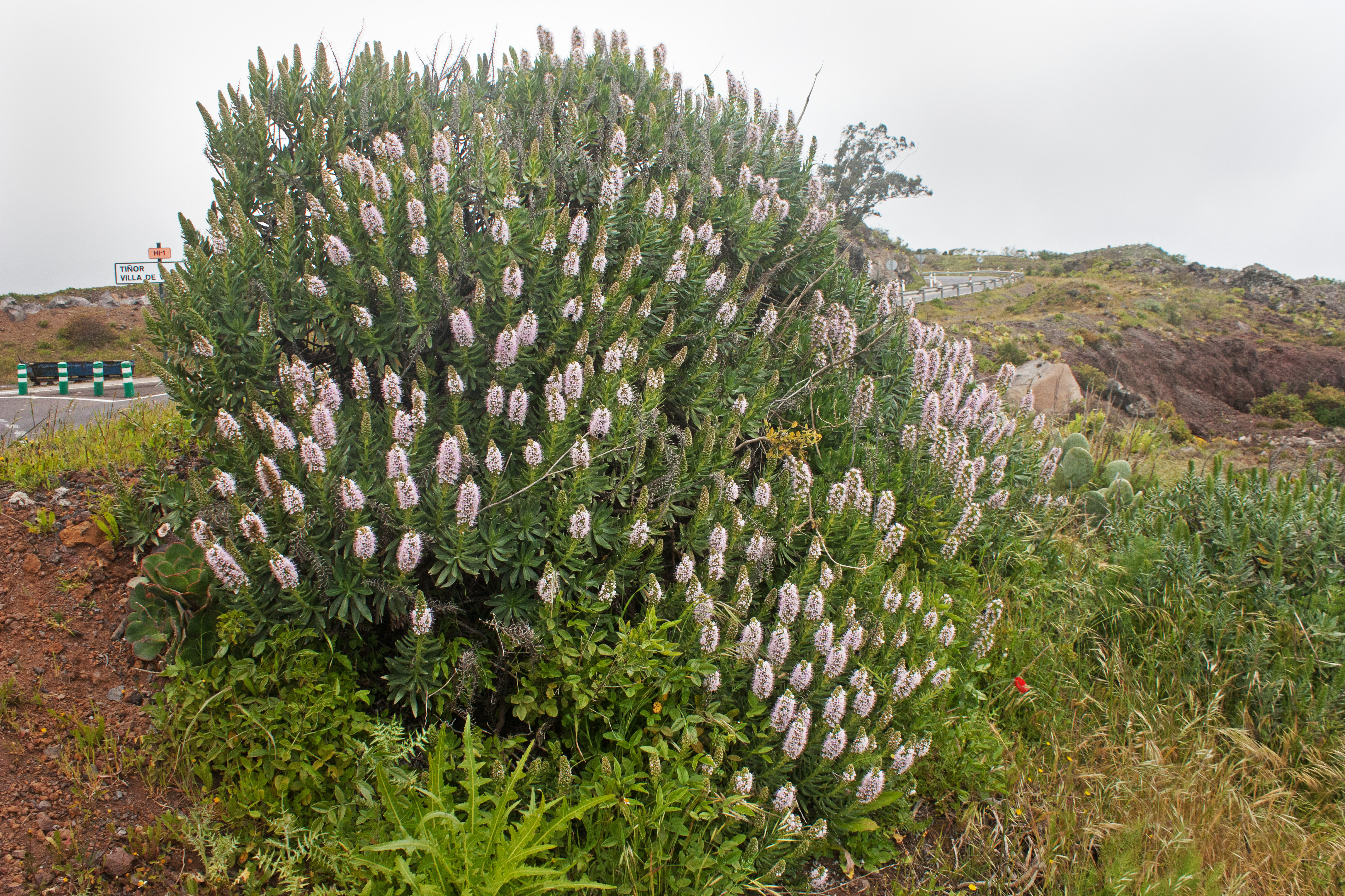 Echium hierrense near San Andrés (El Hierro, Canary Islands, Spain)